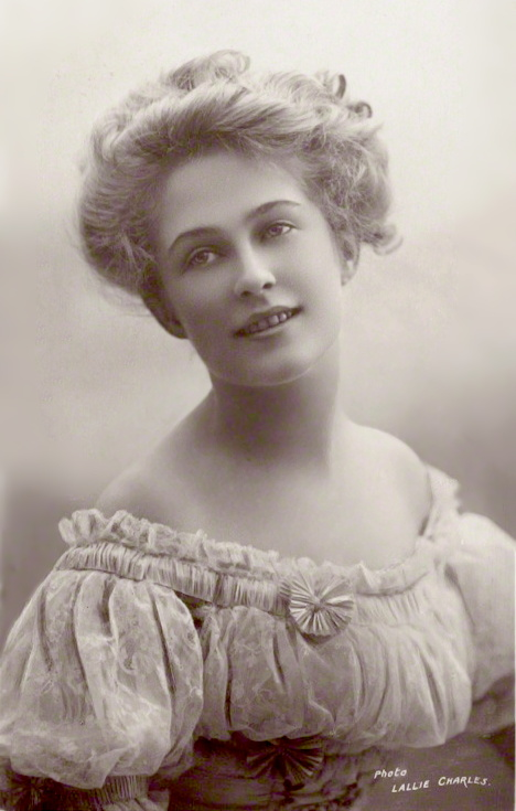 Portrait of Pauline Chase, published by Raphael Tuck & Sons (active 1894-1940).